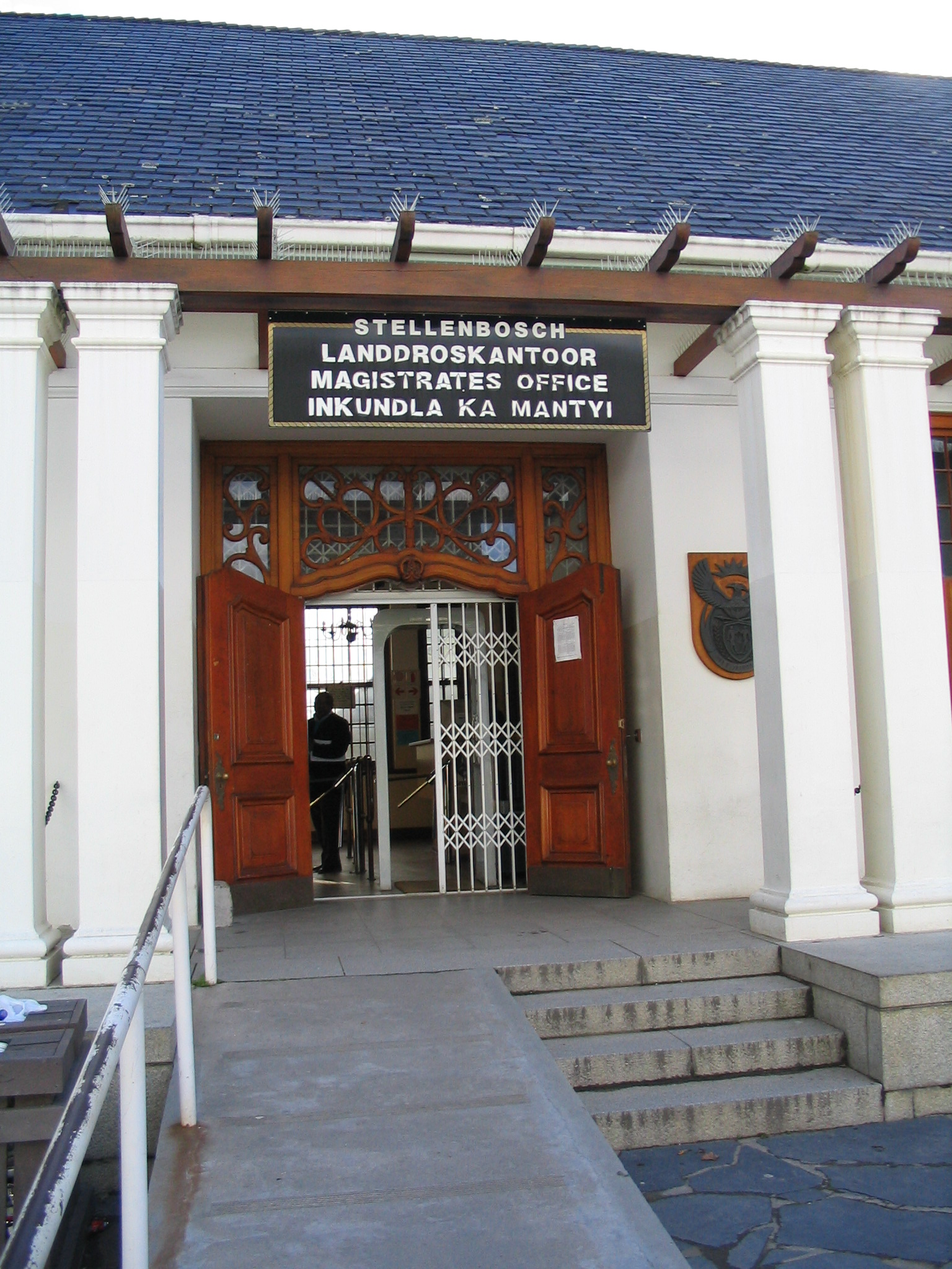 Stellenbosch Magistrate's Office, Alexander Street, Stellenbosch